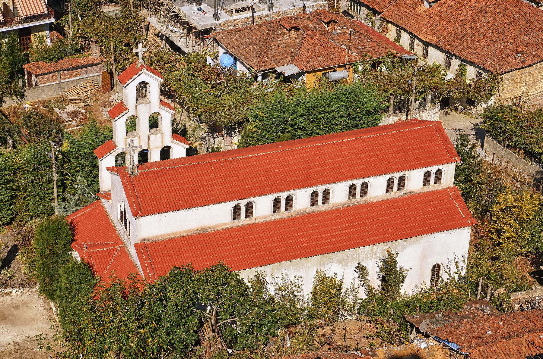 The orthodox church of Lin, Albania